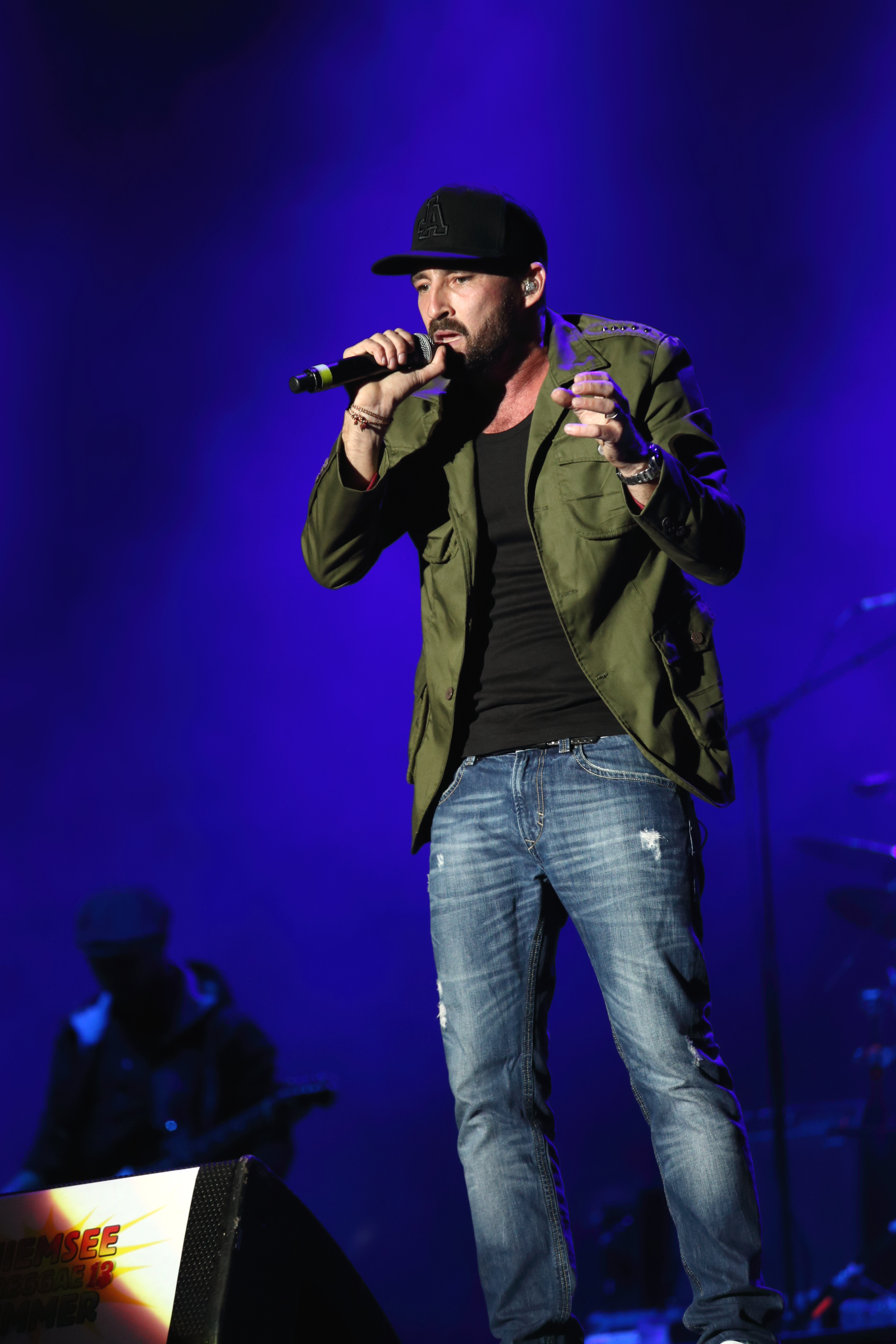 Gentleman auf dem Chiemsee Reggae Summer 2013 Festivalsommer This photo was created with the support of donations to Wikimedia Österreich and Wikimedia Deutschland in the context of the CPB project "Festival Summer".